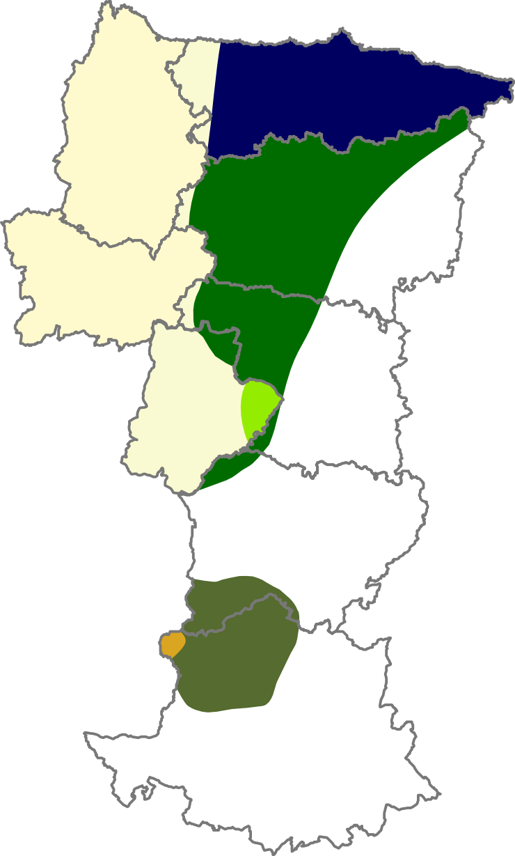 Map of the asturleonese subgroups